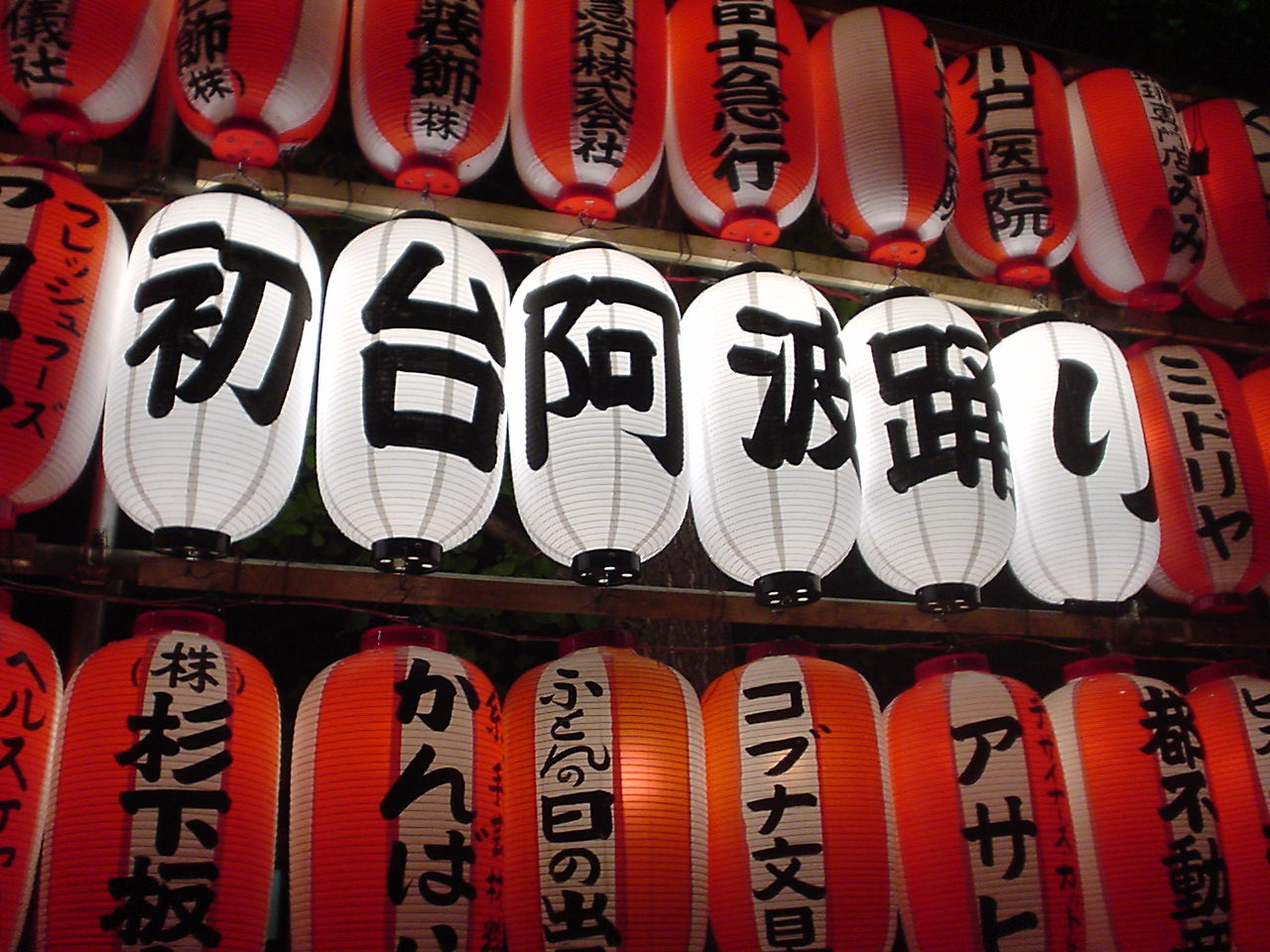 Awa Odori festival at Hatsudai, Shibuya, Tokyo.